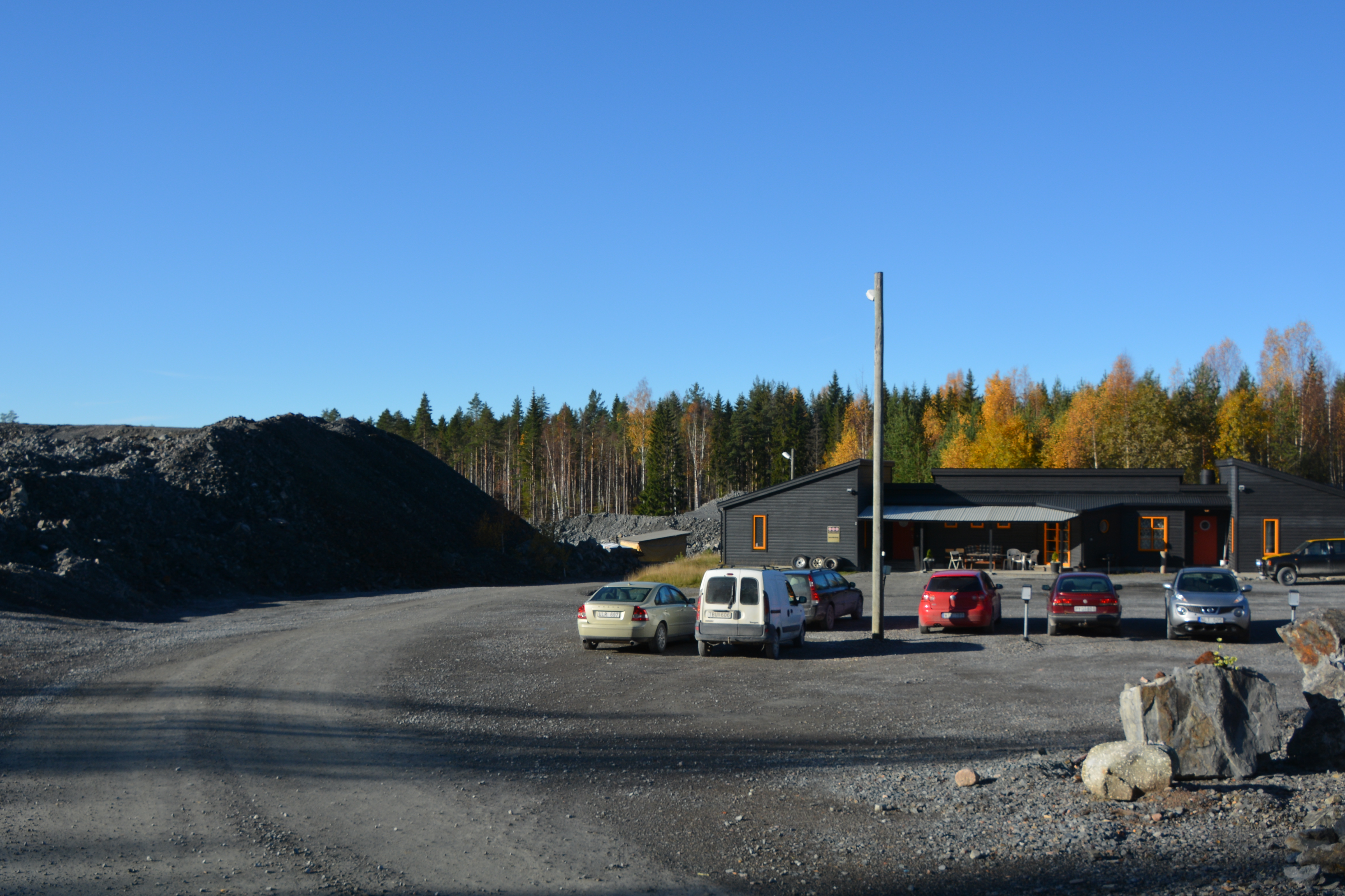 Lovisagruvan